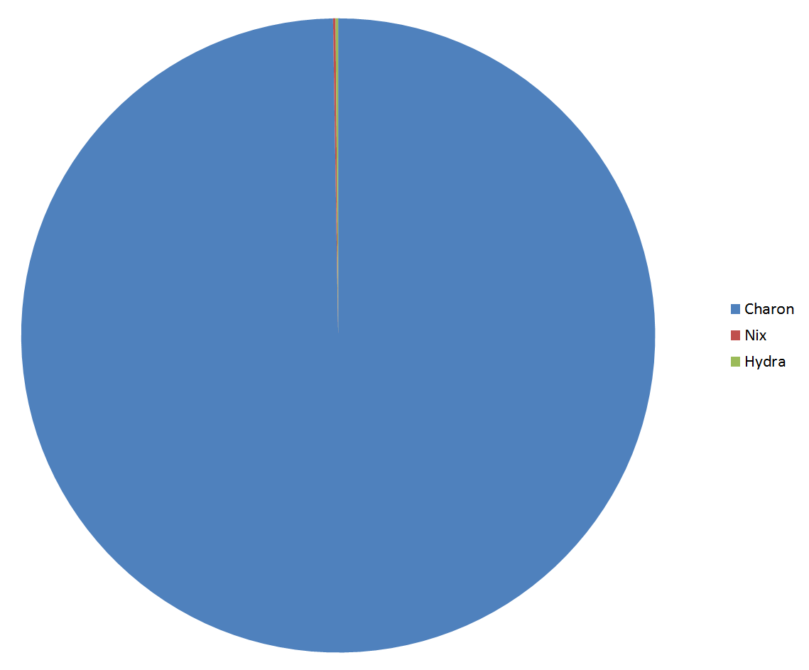 Pie chart of the masses of the Plutonian moons. Masses of Nix and Hydra are assumed to be 2E18 kg.